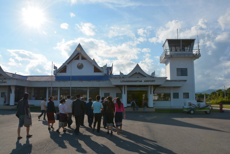 Luangnamtha Airport